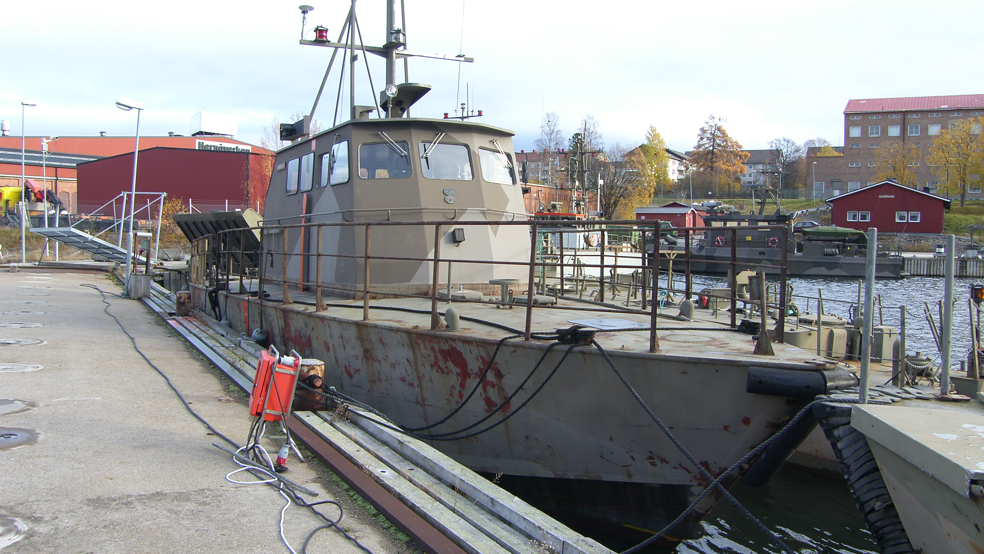 Navyship